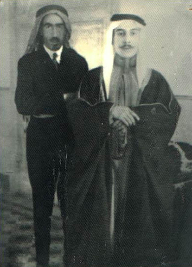 Mustafa Wahbi Tal and Crown Prince Talal in the late 1940s